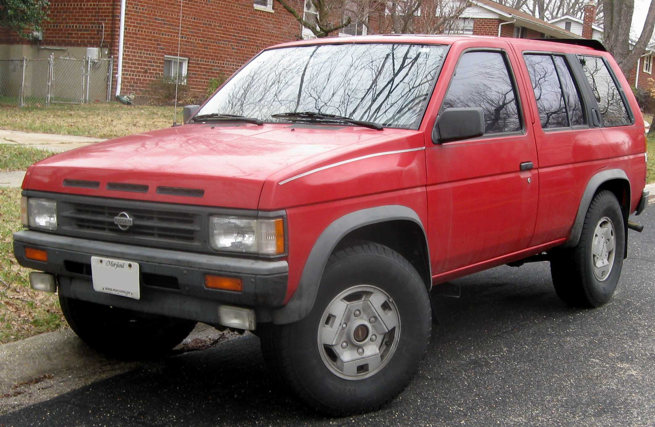 1990-1992 Nissan Pathfinder photographed in Rockville, Maryland, USA.